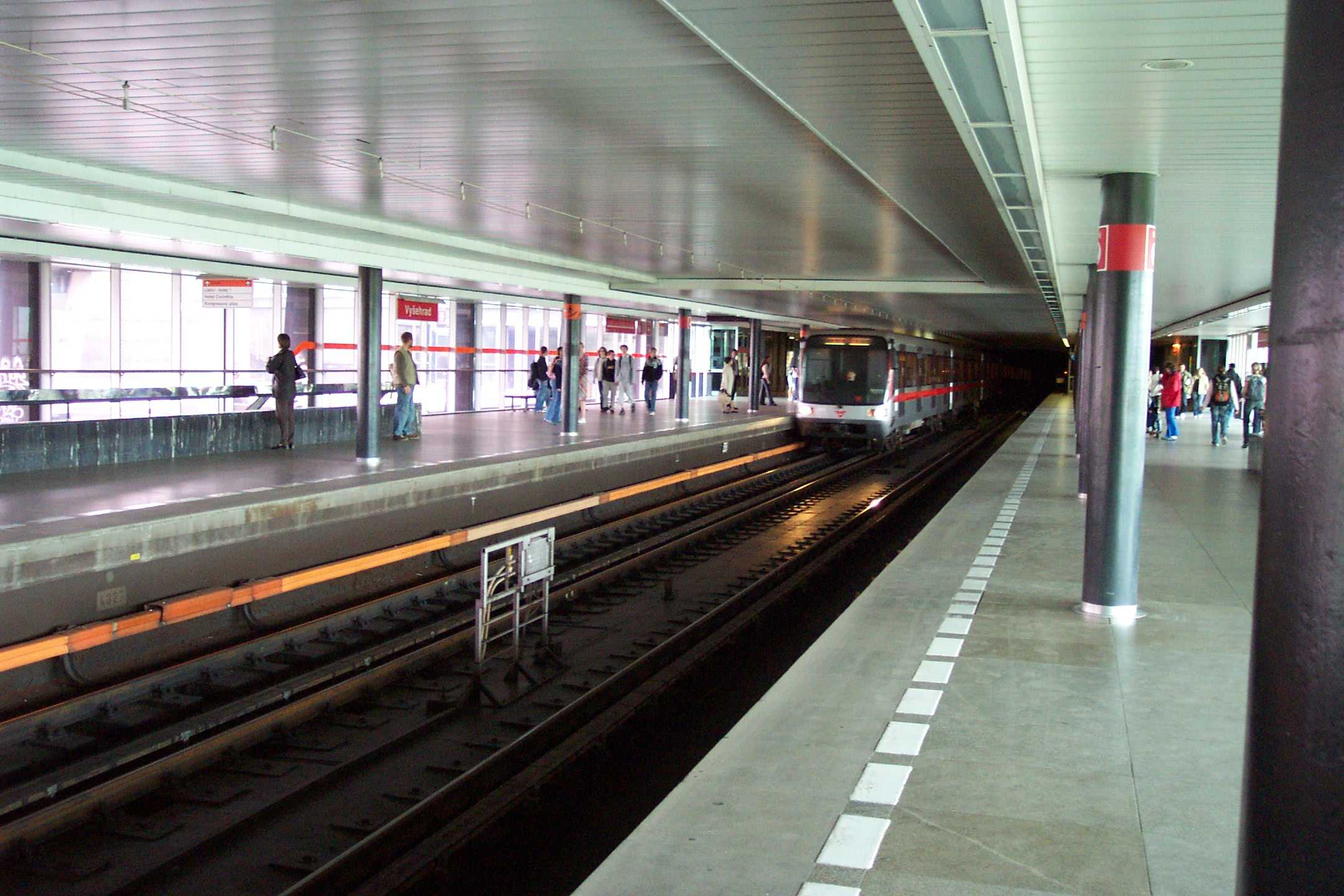 Metro station Vyšehrad in Prague - Stanice metra Vyšehrad